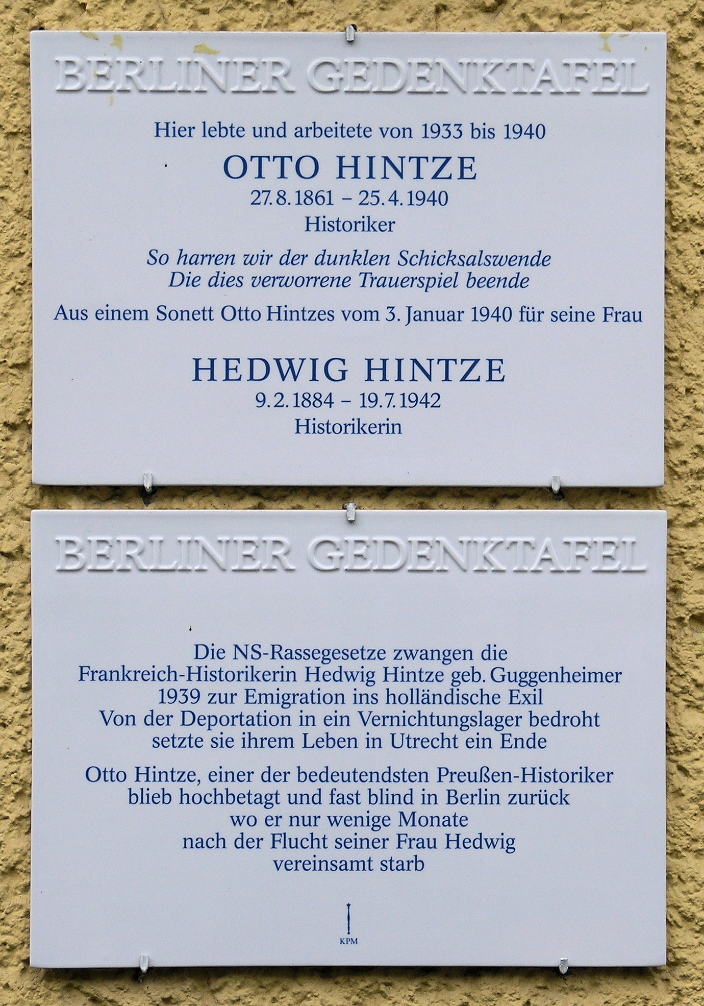 Berlin memorial plaque, Otto Hintze and Hedwig Hintze, Kastanienallee 28, Berlin-Westend, Germany